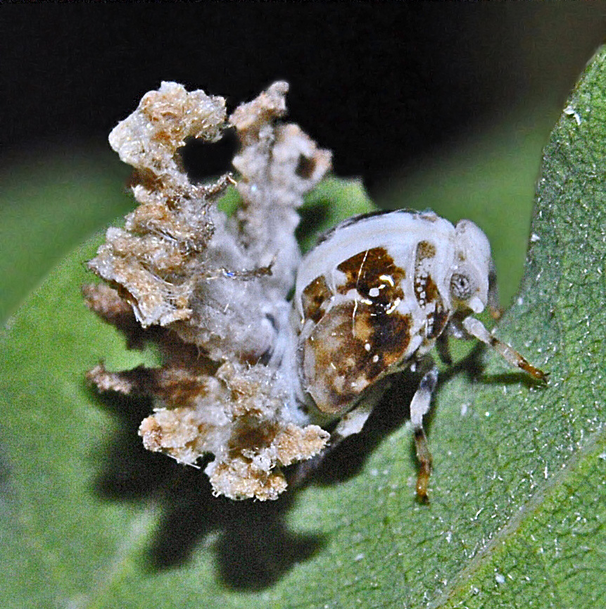 Nymph of Ricania speculum. Genova, Italy